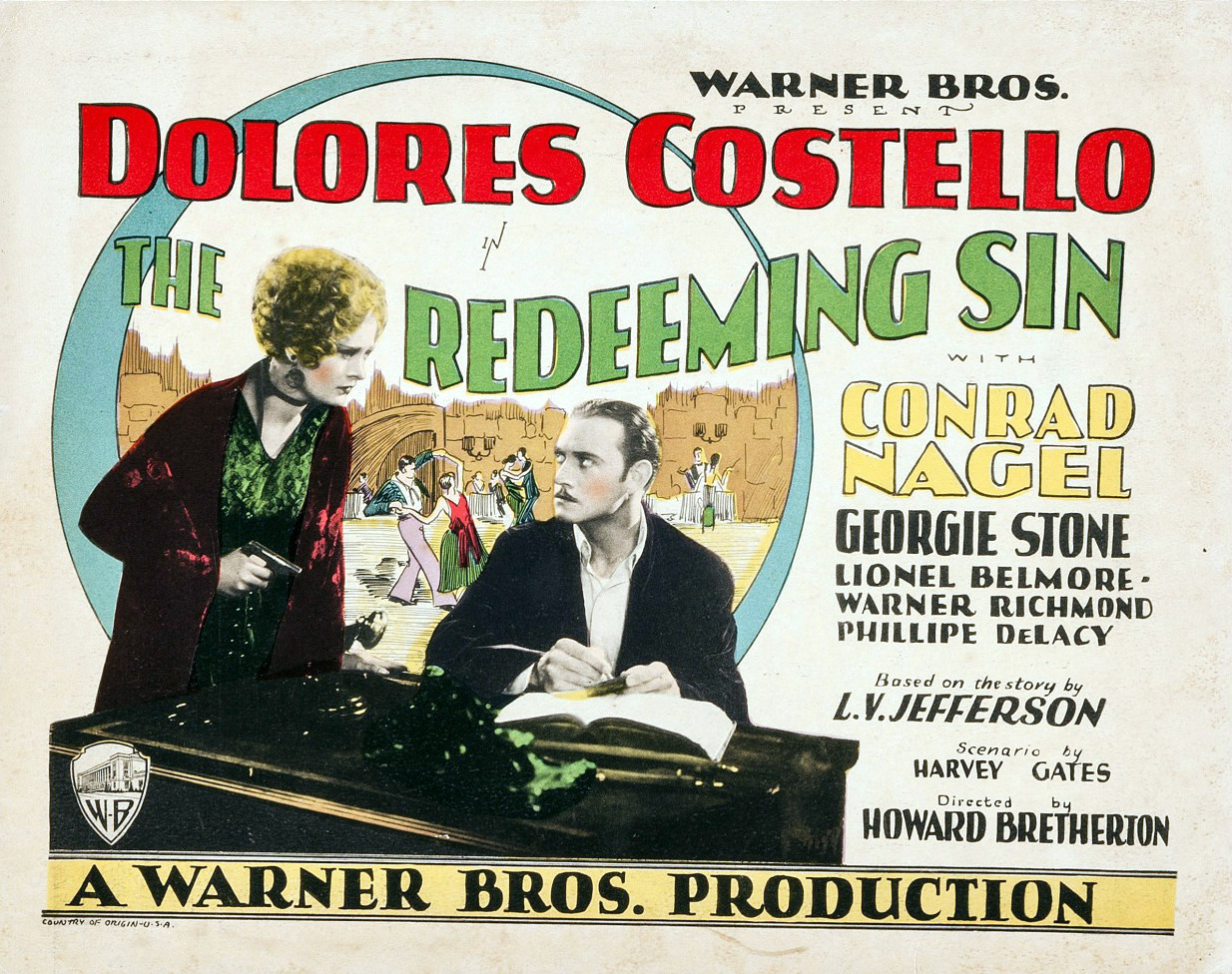 Poster for the 1929 film The Redeeming Sin.